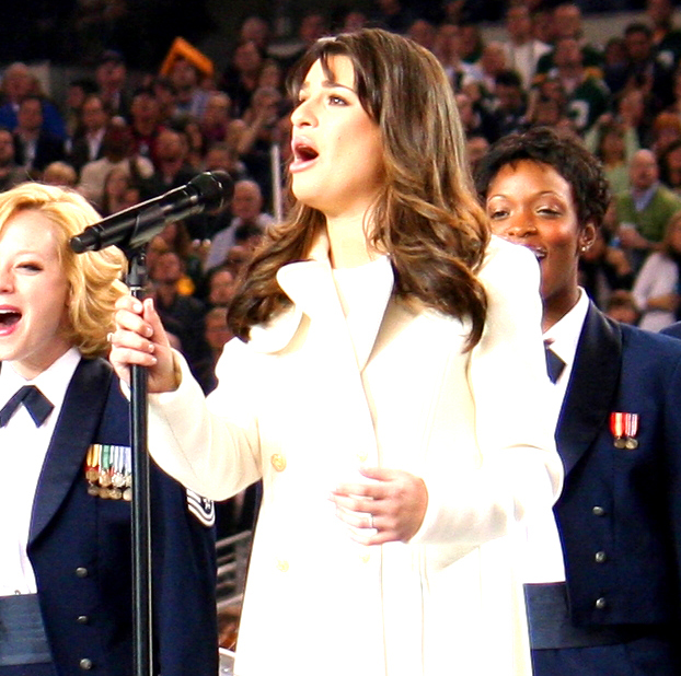 The U.S. Air Force Tops In Blue accompany singer Lea Michele, star of the Fox television series, "Glee," during the performance of "America the Beautiful" as part of the pre-game ceremony for Super Bowl XLV at Cowboys Stadium in Arlington, Texas.